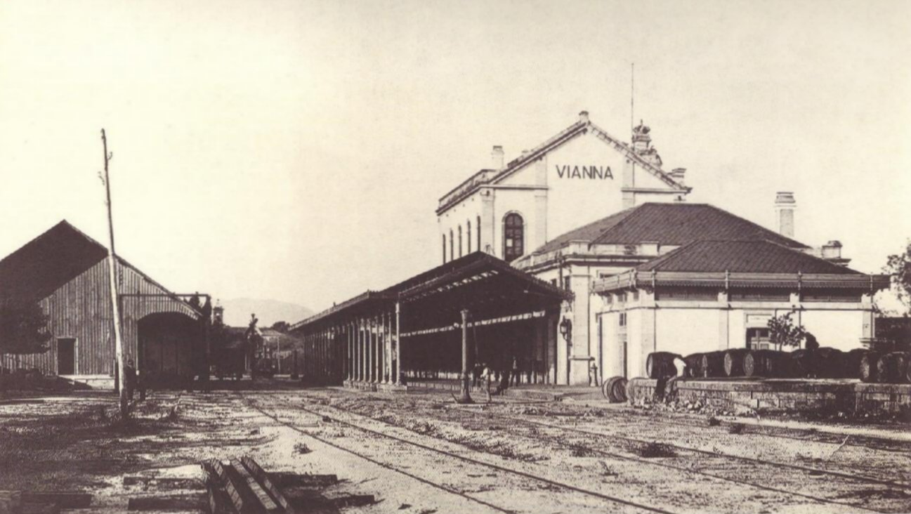 Viana do Castelo Train Station, in the Minho Line, in Portugal.